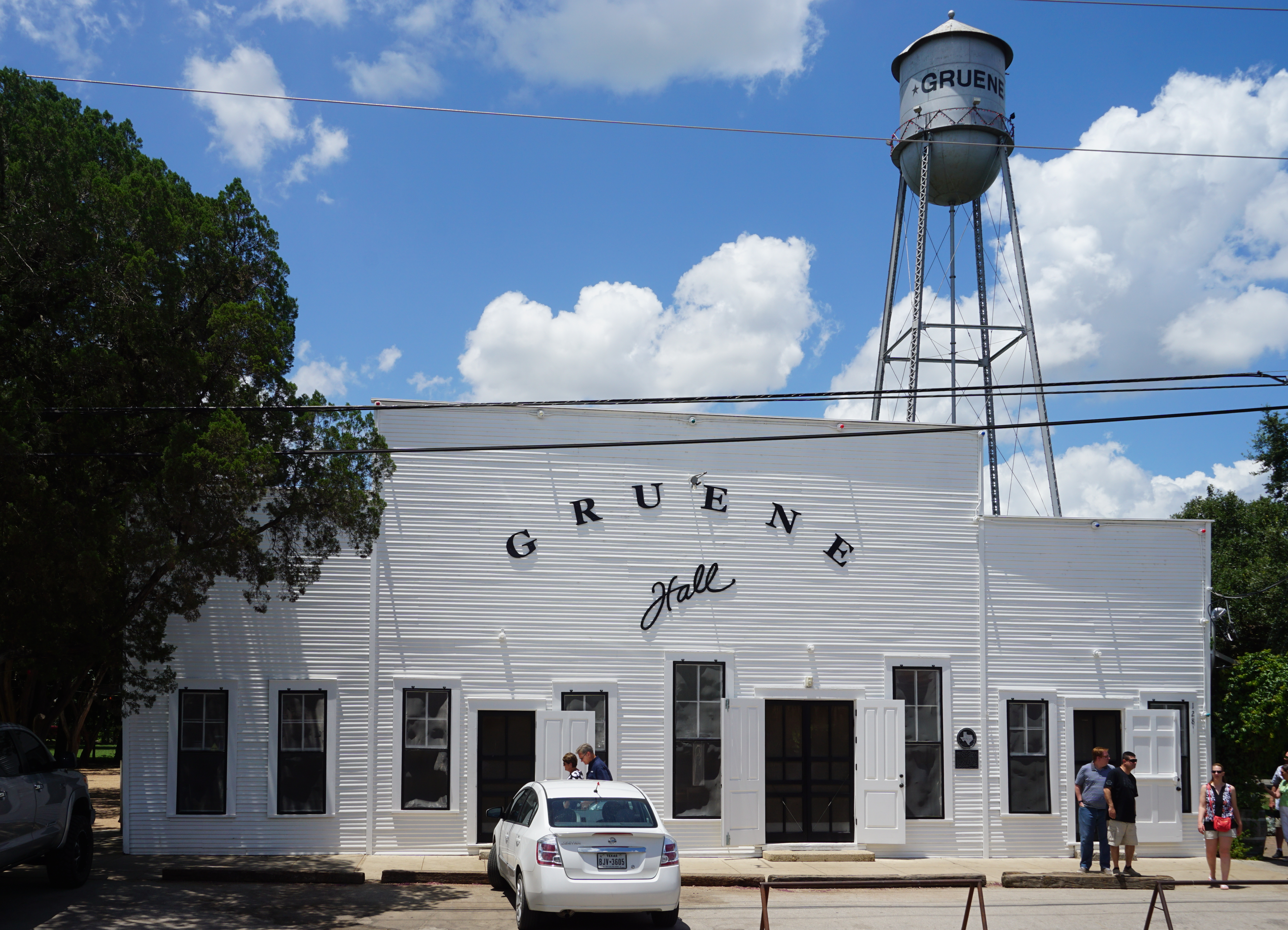 Gruene Hall and the water tower in the Gruene district in New Braunfels, Texas (United States).